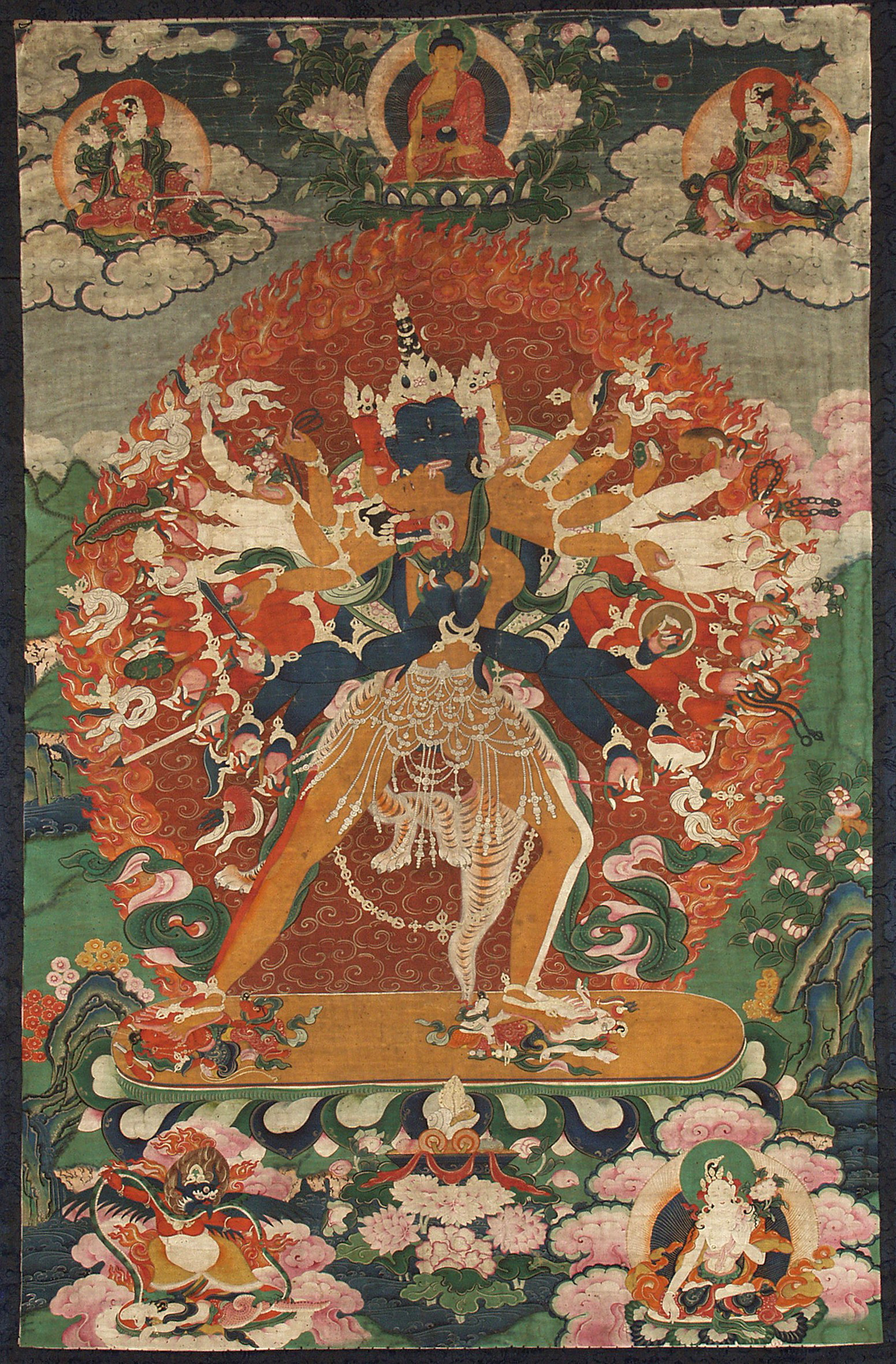 Kālacakra